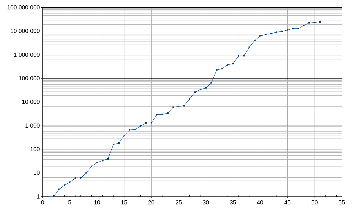 X axis: n-th Mersenne prime number Y axis: number of digits